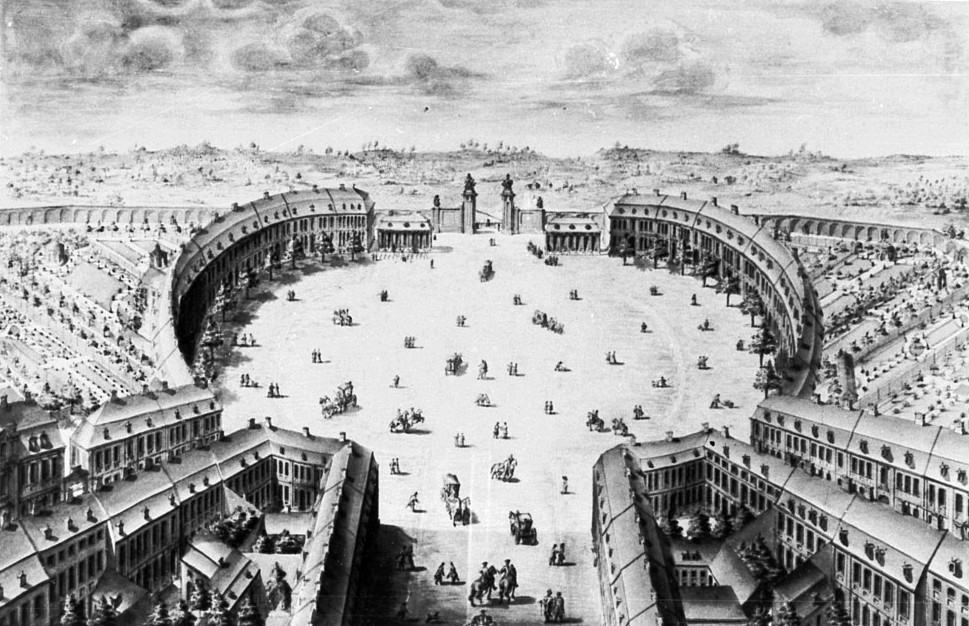 Berlin, Mehringplatz. View to South.